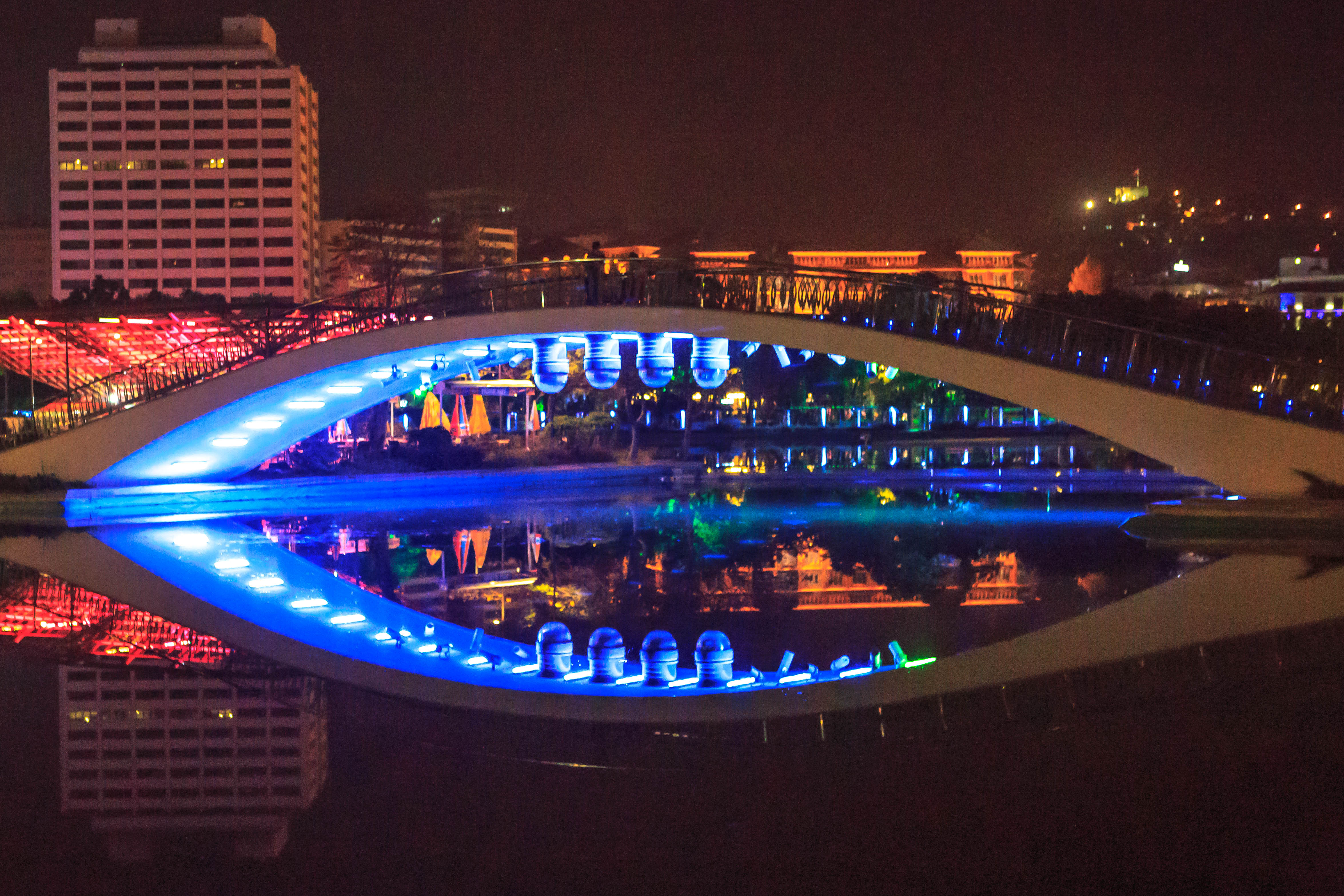 Ankara...Genclick Park..spectacular night lights